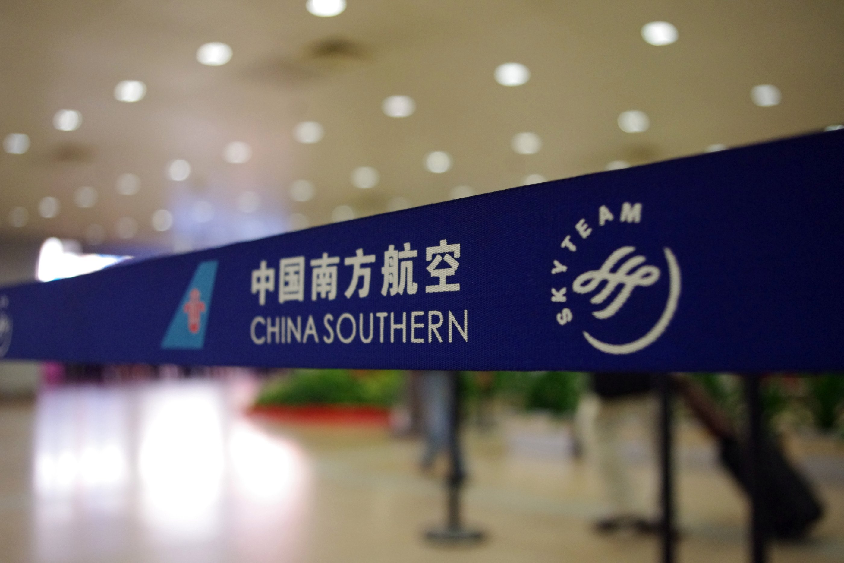 Arrival Hall in Beijing Capital International Airport